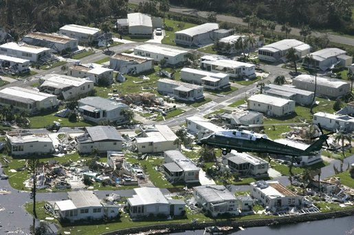 President George W. Bush, aboard Marine One, surveys hurricane damage over Fort Myers, Fla., Sunday, Aug. 15, 2004.